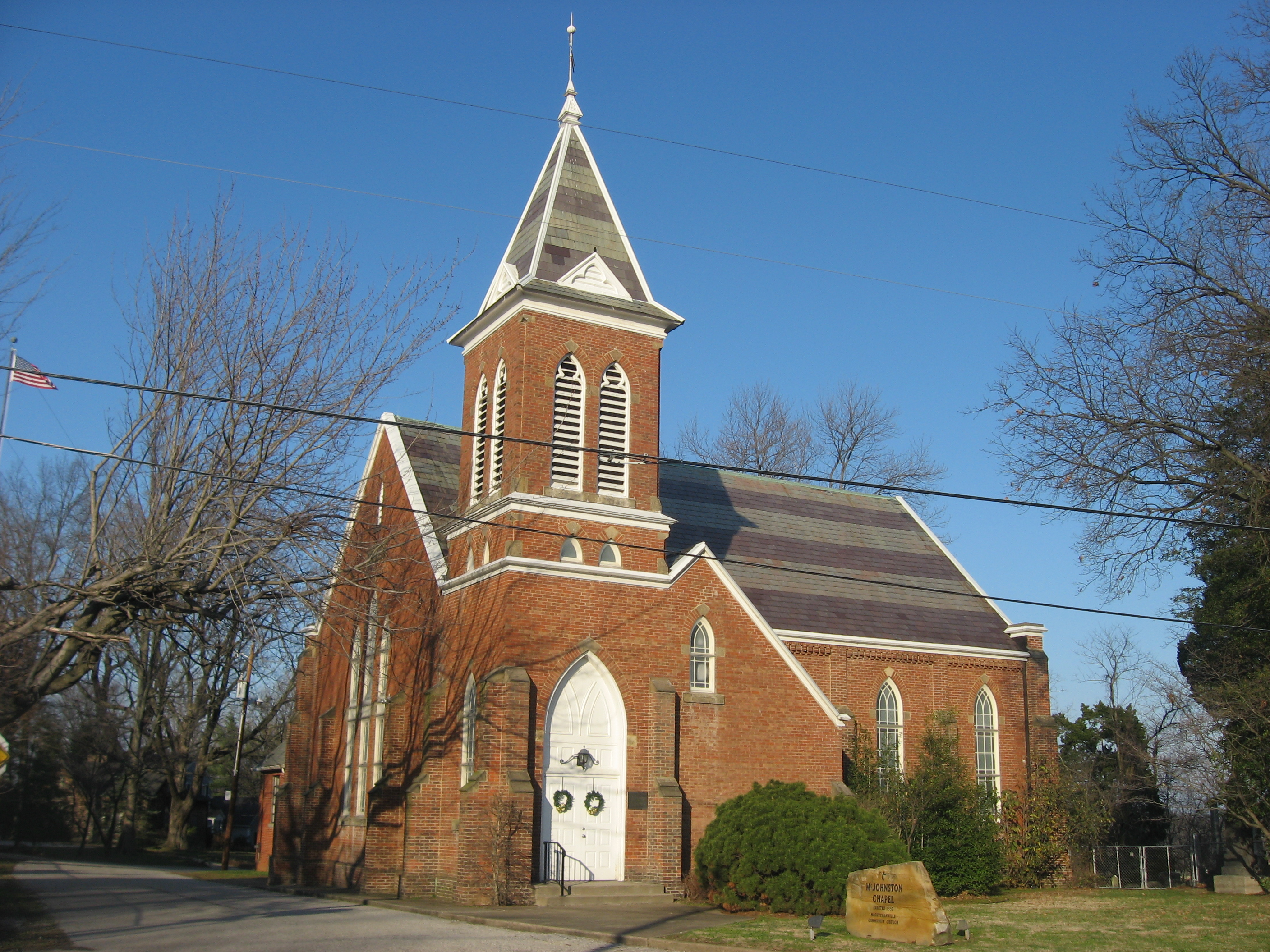 Front and western side of McJohnston Chapel, located at the junction of Kansas Road and Erskine Lane at McCutchanville in Center Township, Vanderburgh County, Indiana, United States. Built in 1891, it is listed on the National Register of Historic Places.